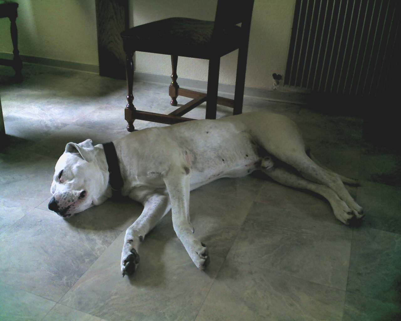 Photo of an Argentine Dogo (sleeping) in Mertzwiller (France) taken in 2006. Name of the Dog : Laiko. Photo by David Durrenberger.